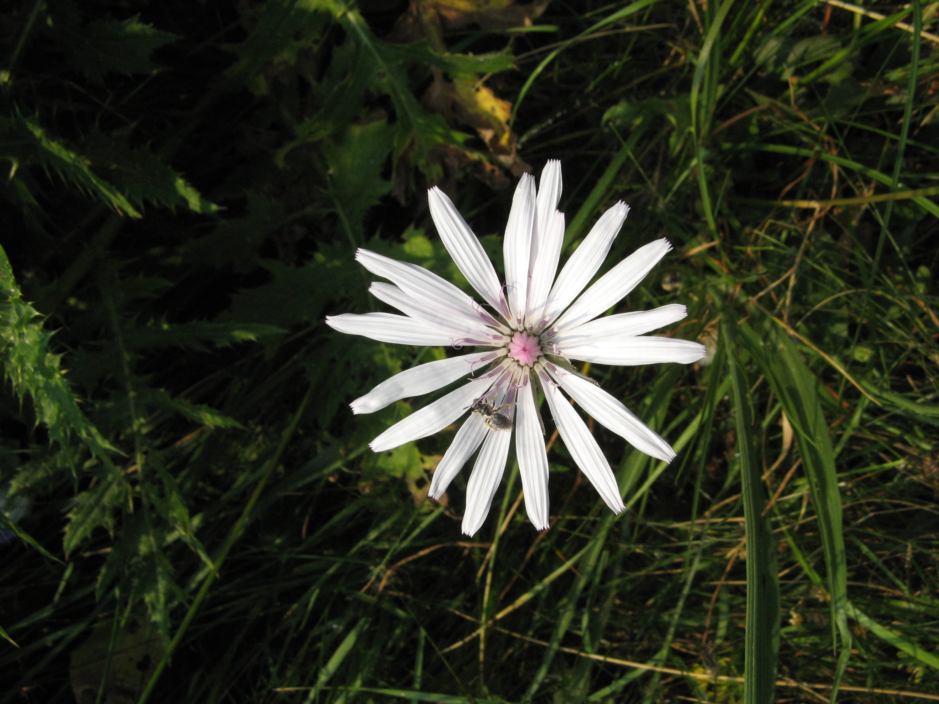 Asteraceae flower